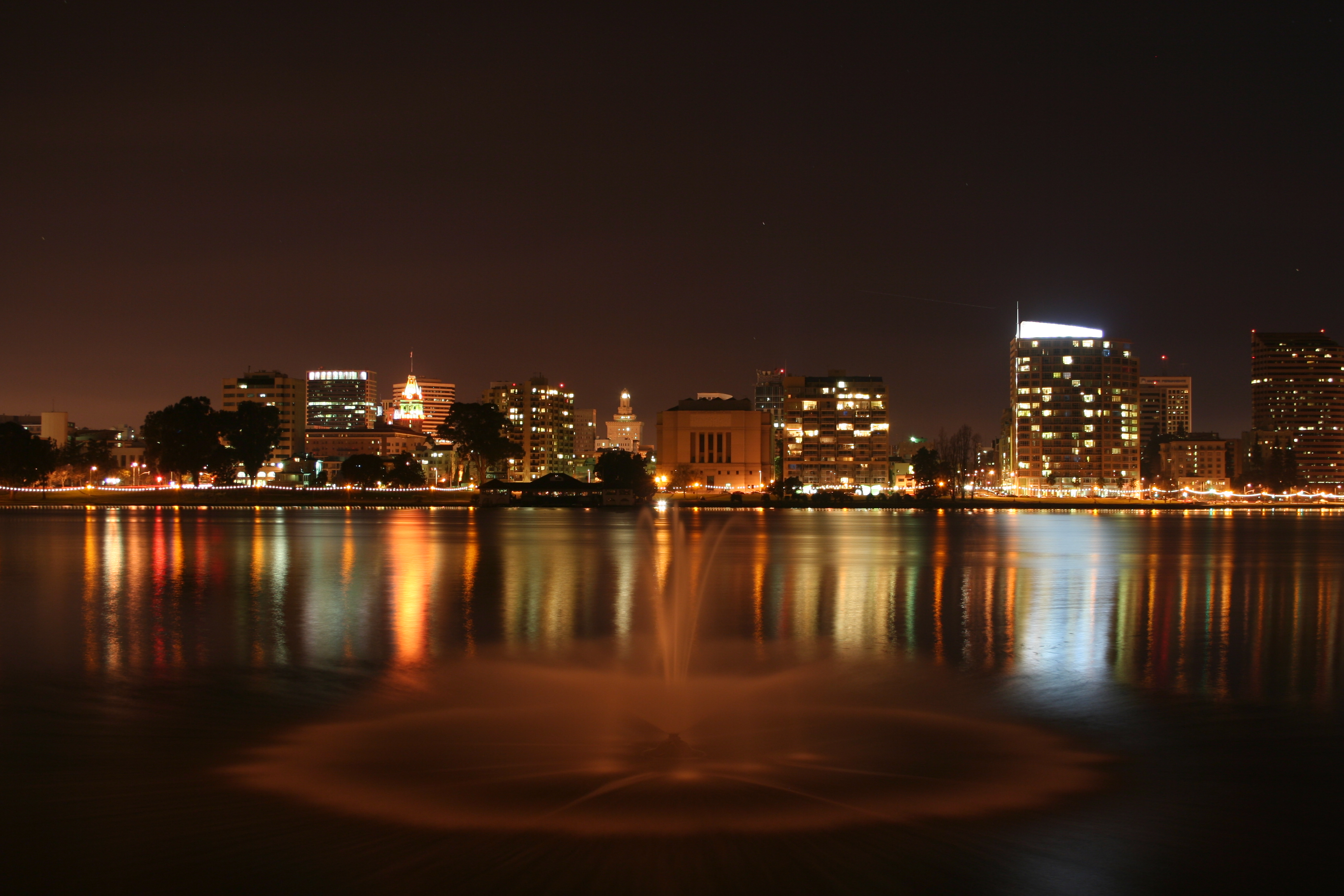 Oakland California from across Lake Merritt.